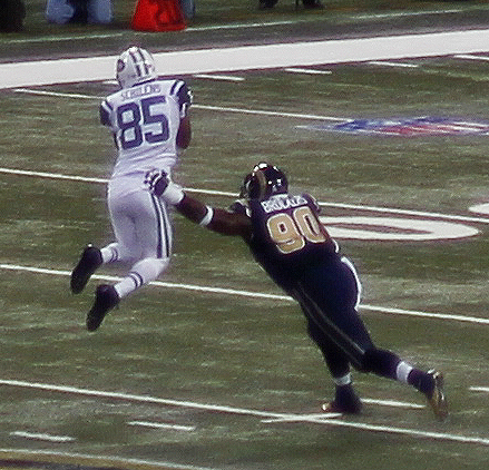 Schilens of theJets against St.Louis rams.